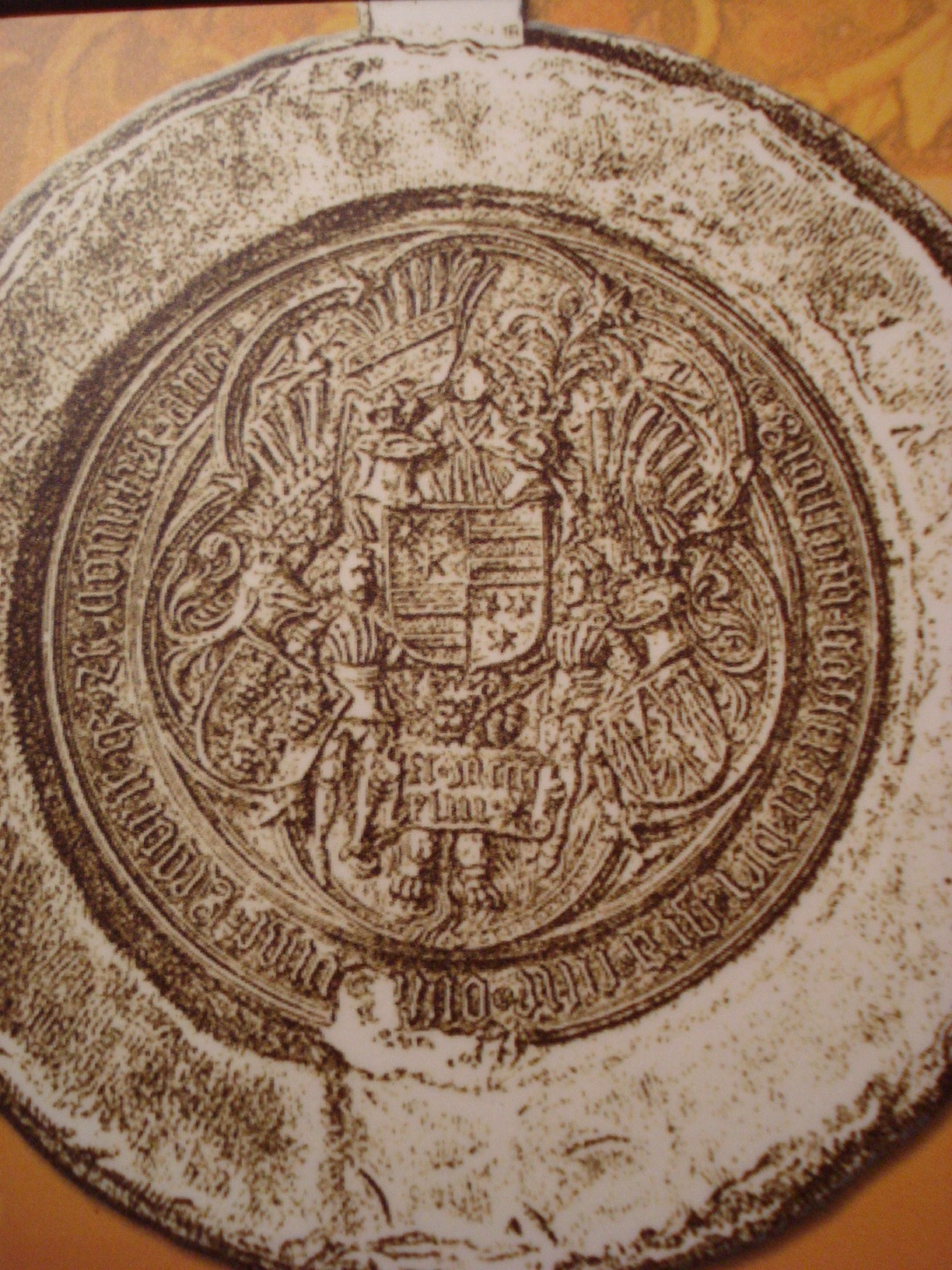 The seal of count Ulrich II of Celje (1406-1456), Holy Roman Empire (present-day Slovenia)